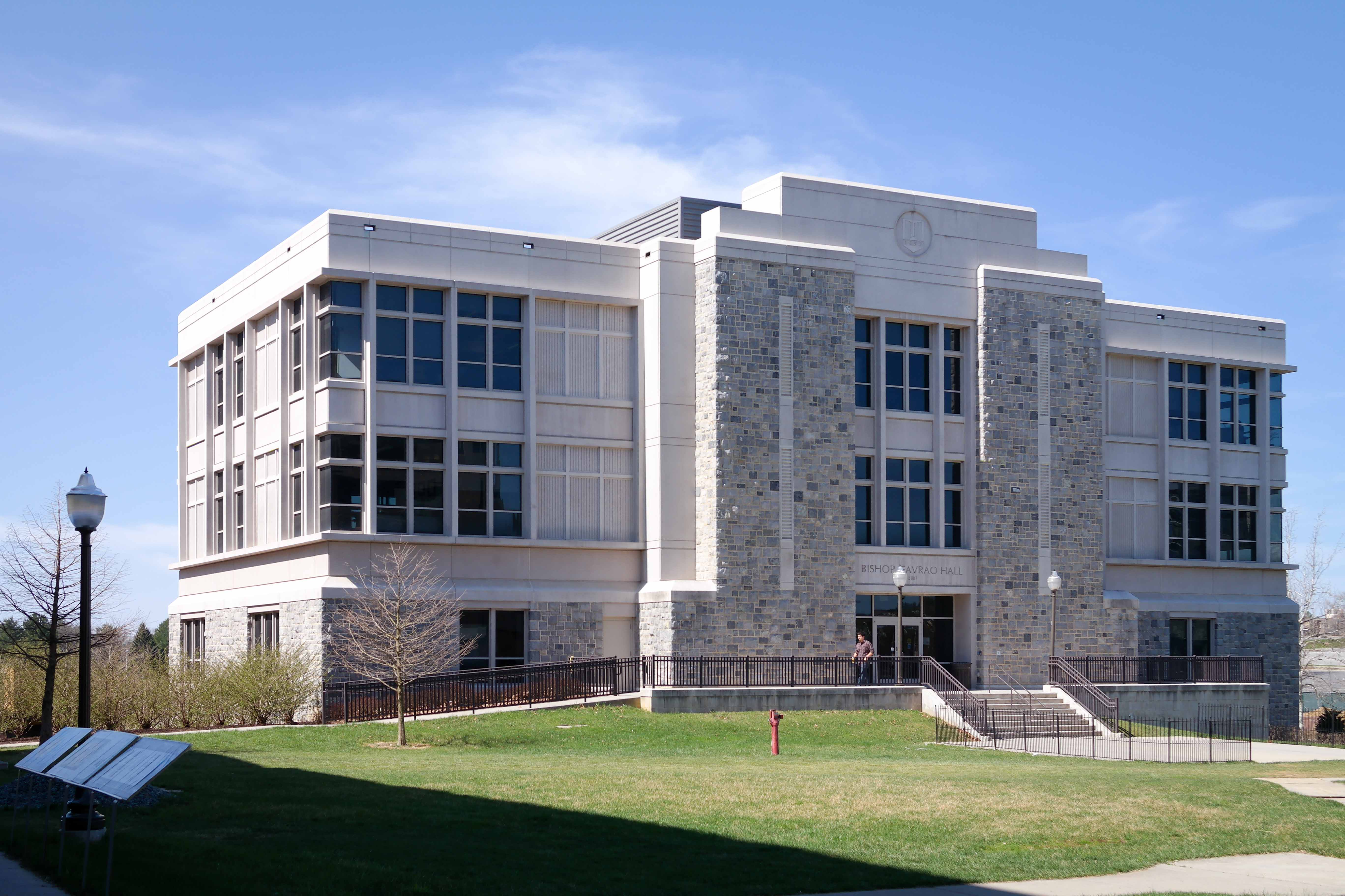 Bishop-Favrao Hall at Virginia Tech in Blacksburg, Virginia